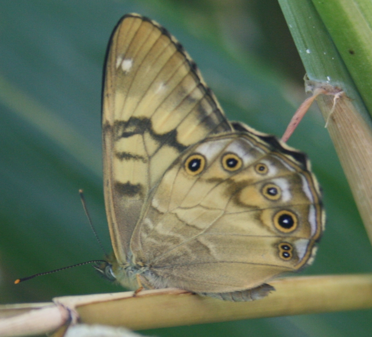 Zophoessa callipteris (Lethe callipteris) in Mount Haku